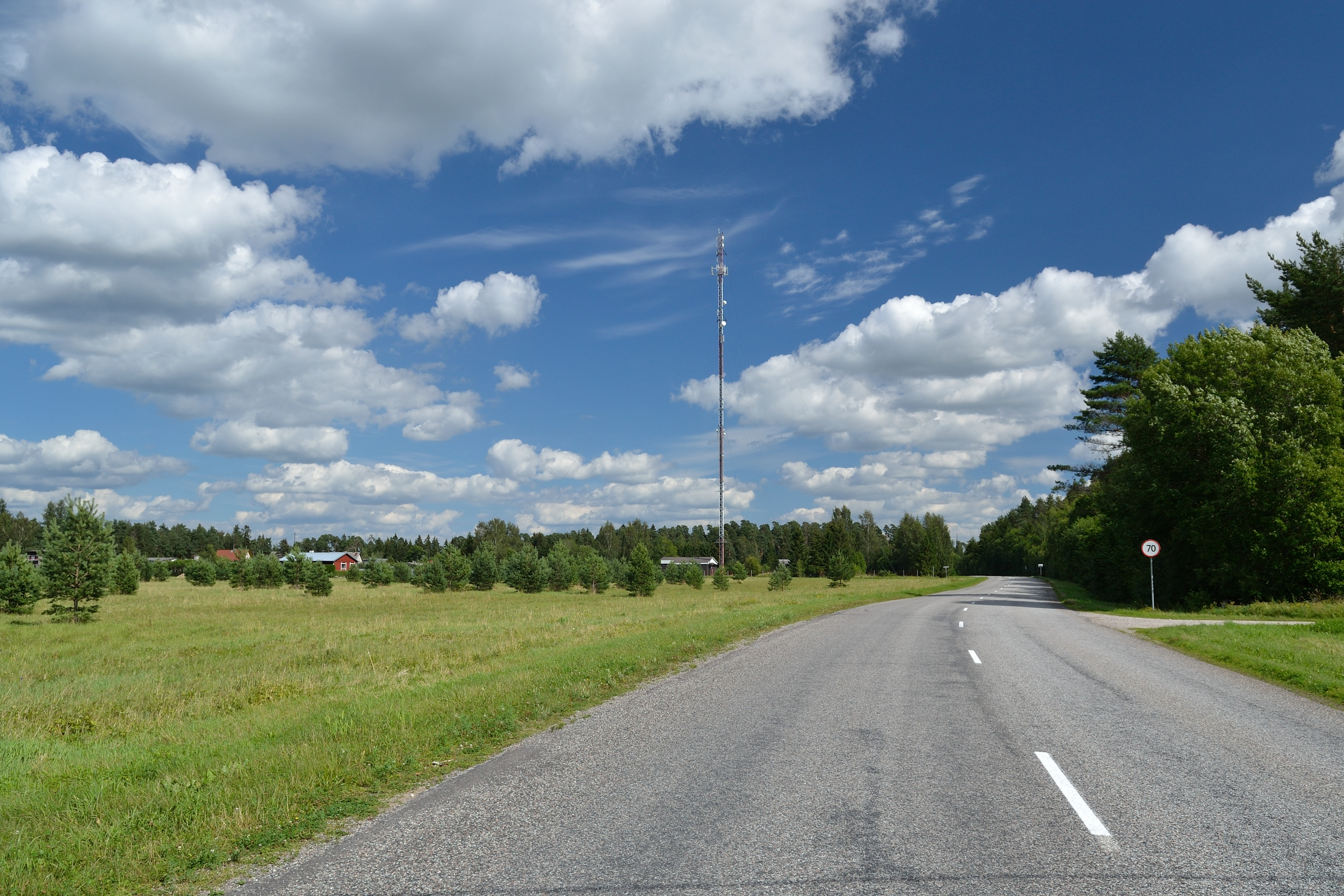 Kernu–Kohila road in Masti village